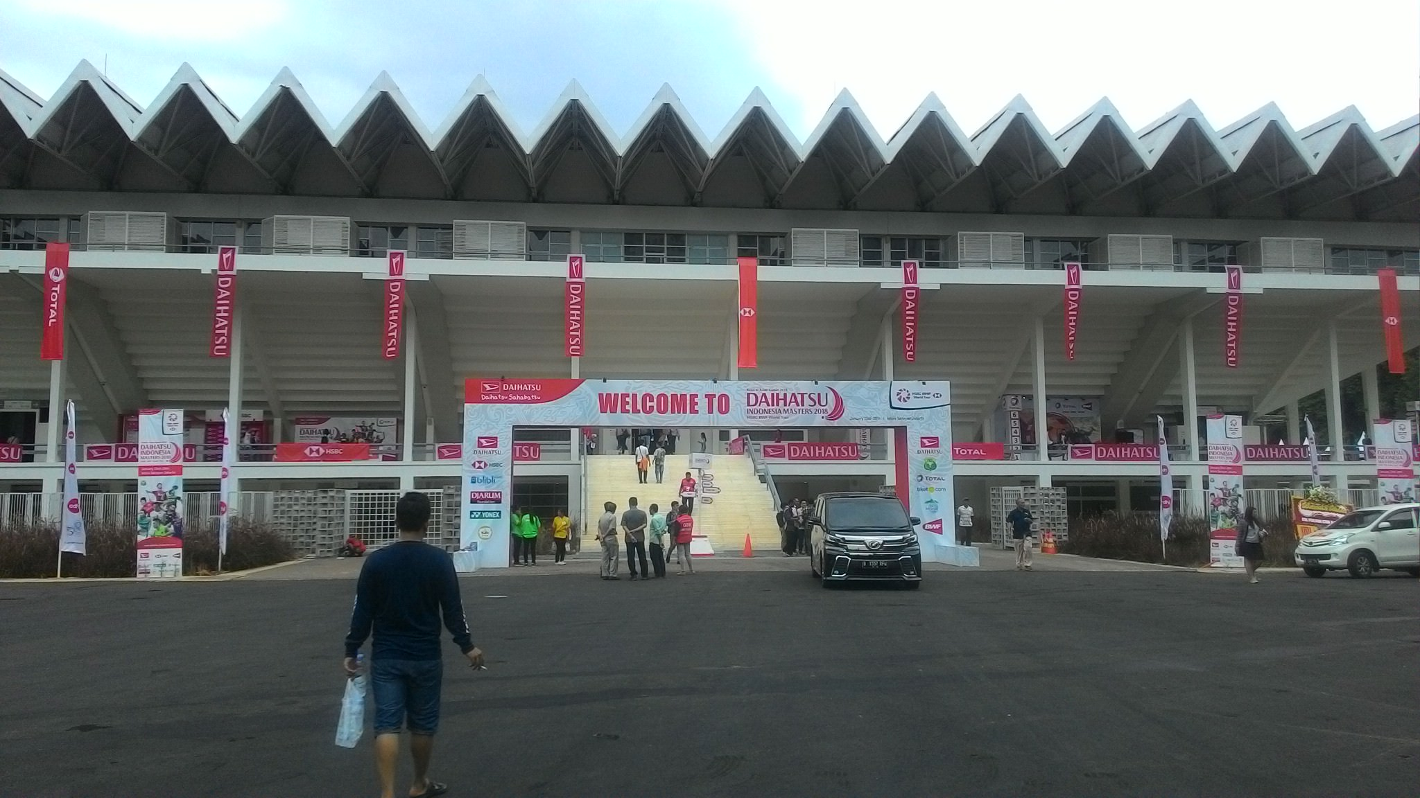 Facade of Istora Senayan, January 2018